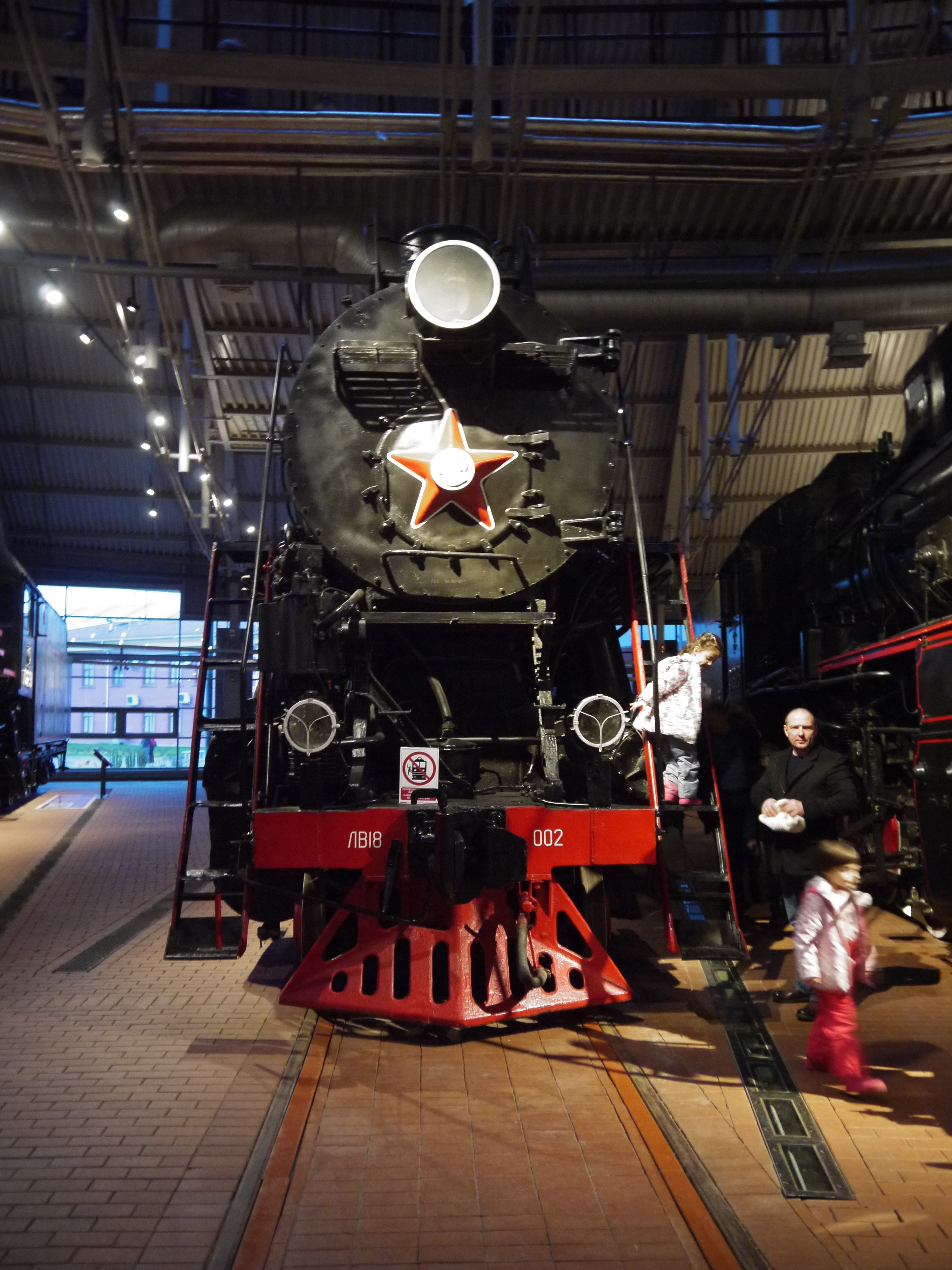 Locomotive LV18-002 at the Russian Railway Museum, adjacent Baltiysky Railway station, Saint Petersburg This was a development of the L class. It was built at the Voroshilovgradskim Parovozostroitelnym factory in 1953. They served at Moskovsko-Ryazanskoy and Northern railways until 1982 and then as a factory boiler.